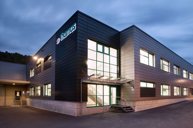 Production facility of Thomas Magnete GmbH in Herdorf